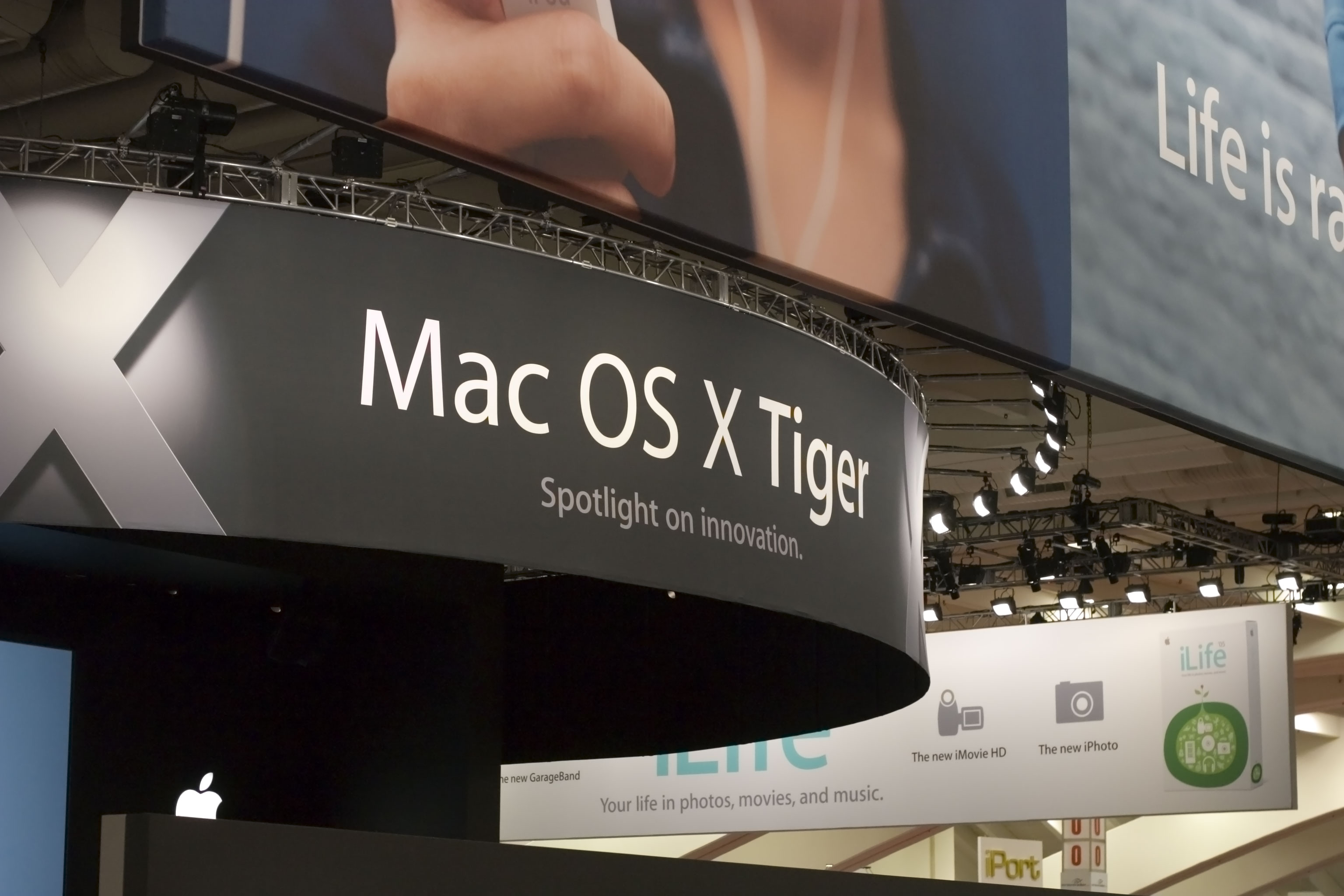 From Macworld Conference & Expo 2005 by Sean O'Flaherty aka Seano1